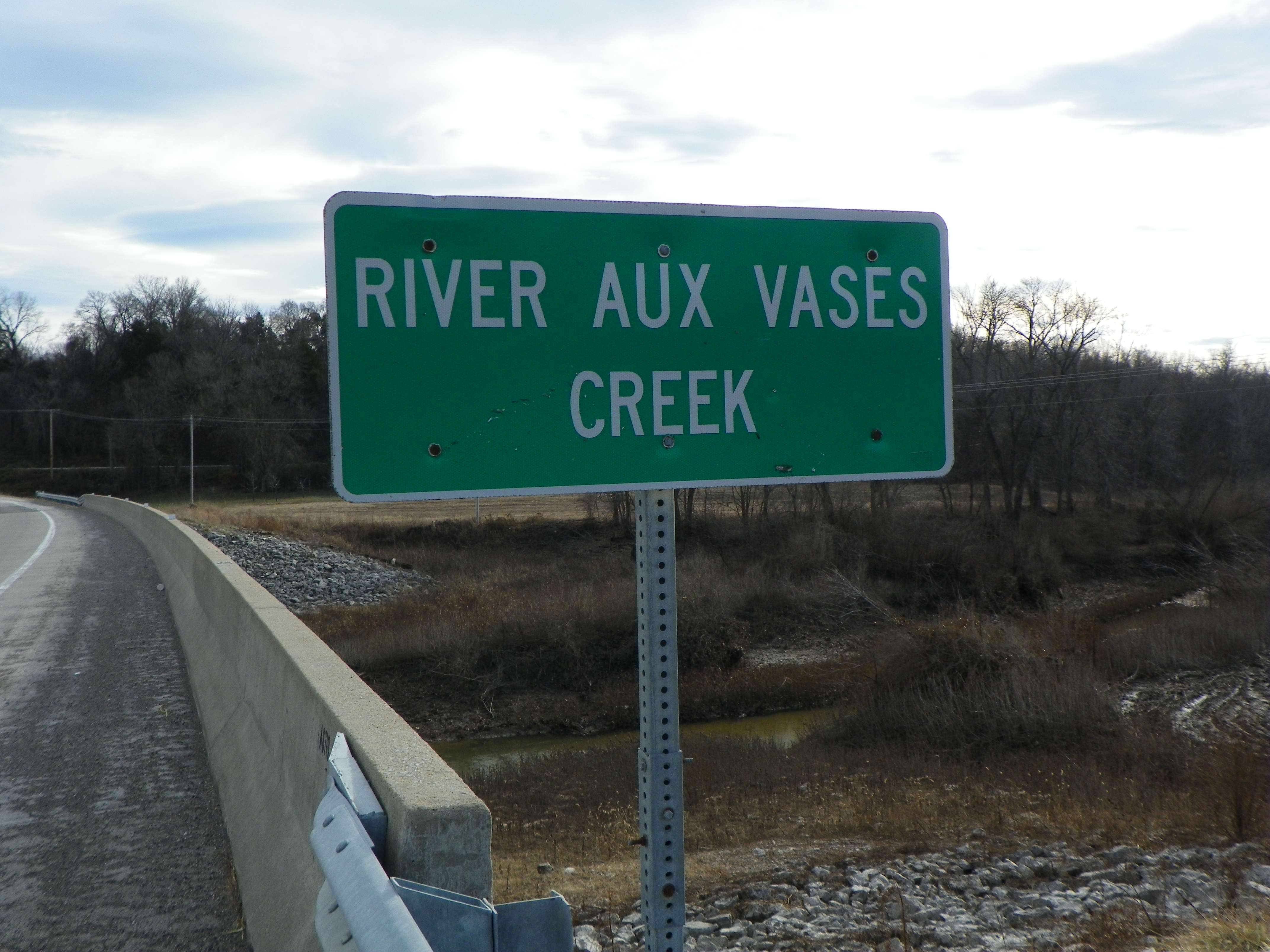 River aux Vases, Missouri road sign, view from Highway 61 bridge